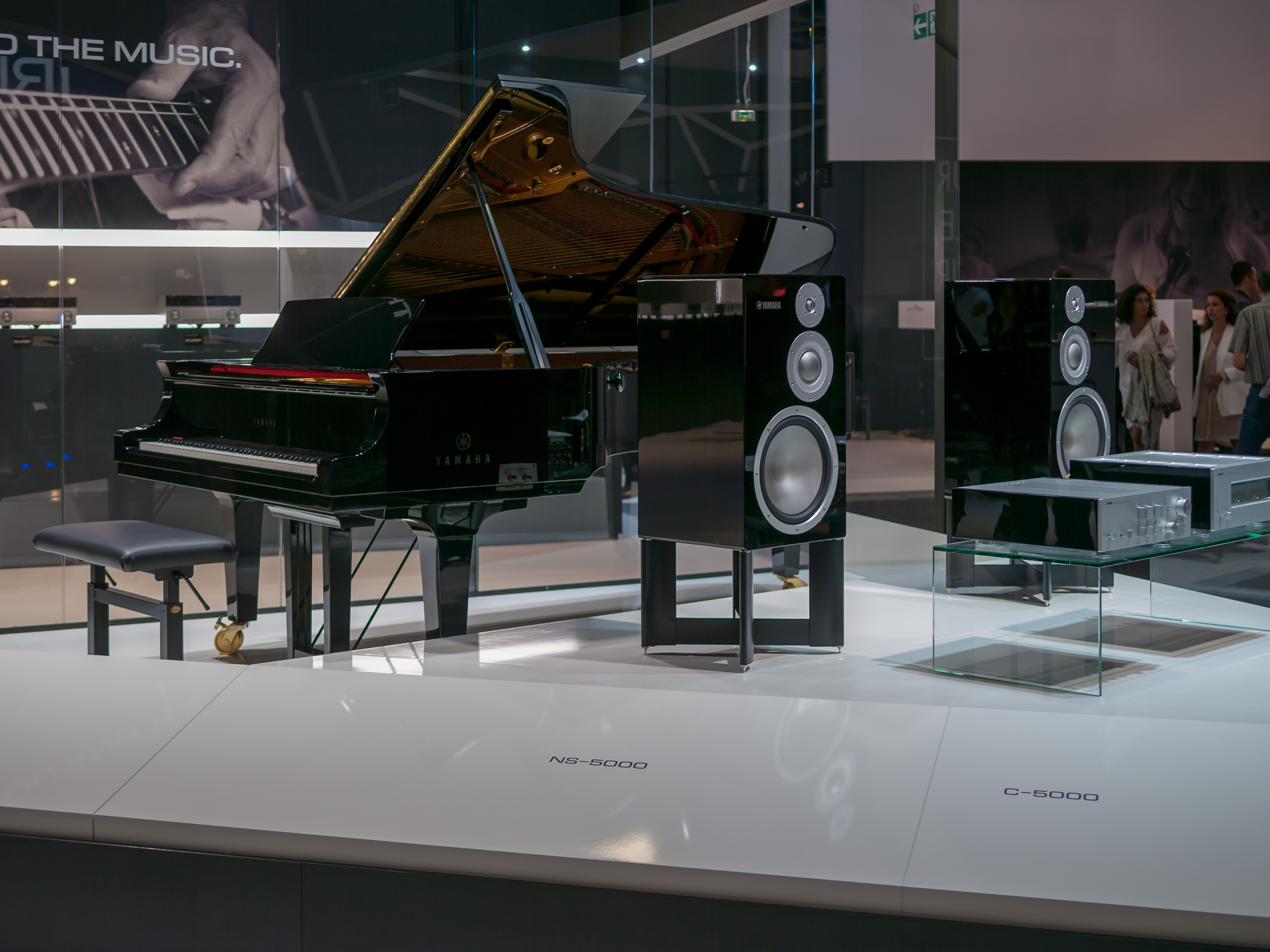 Yamaha, Internationale Funkausstellung 2018, Berlin